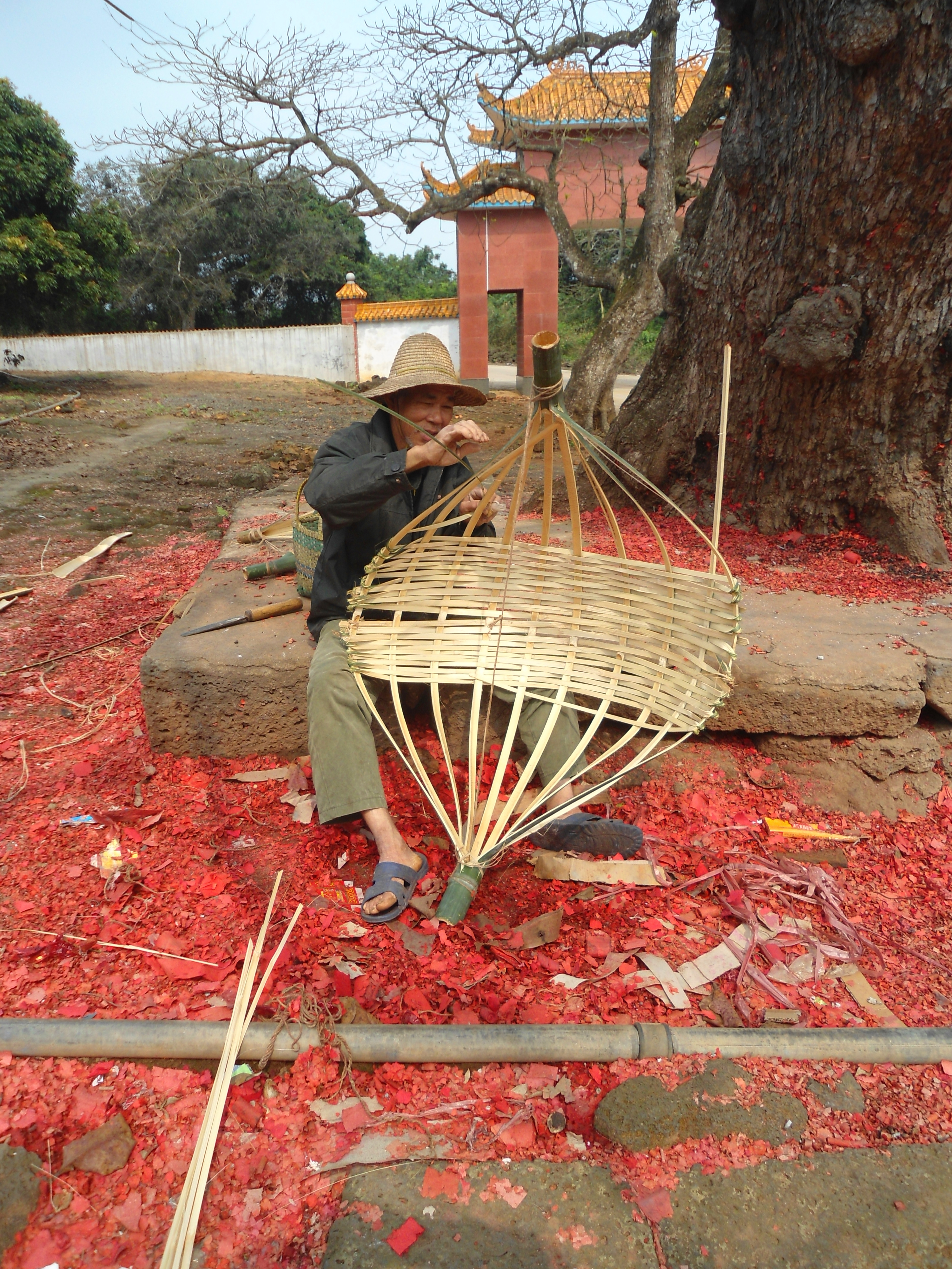 Basket making in Hainan, China. The material is bamboo strips. The man spoke no Mandarin at all, so I couldn't ask him questions.